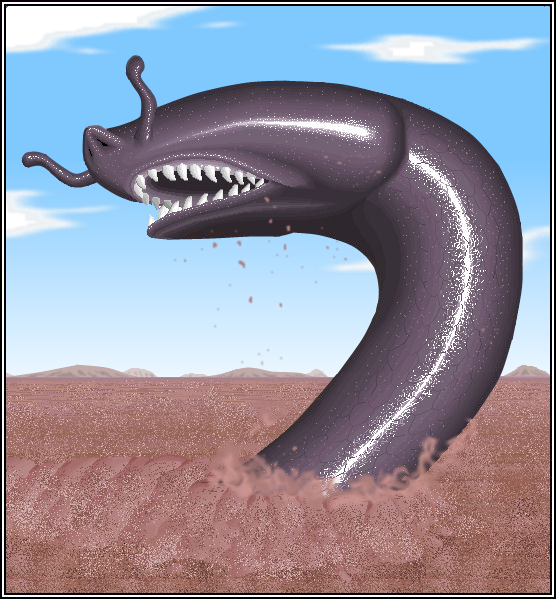 This image was created by Kryptid. He hereby grants permission for this image to used by anyone without needing to obtain his permission.